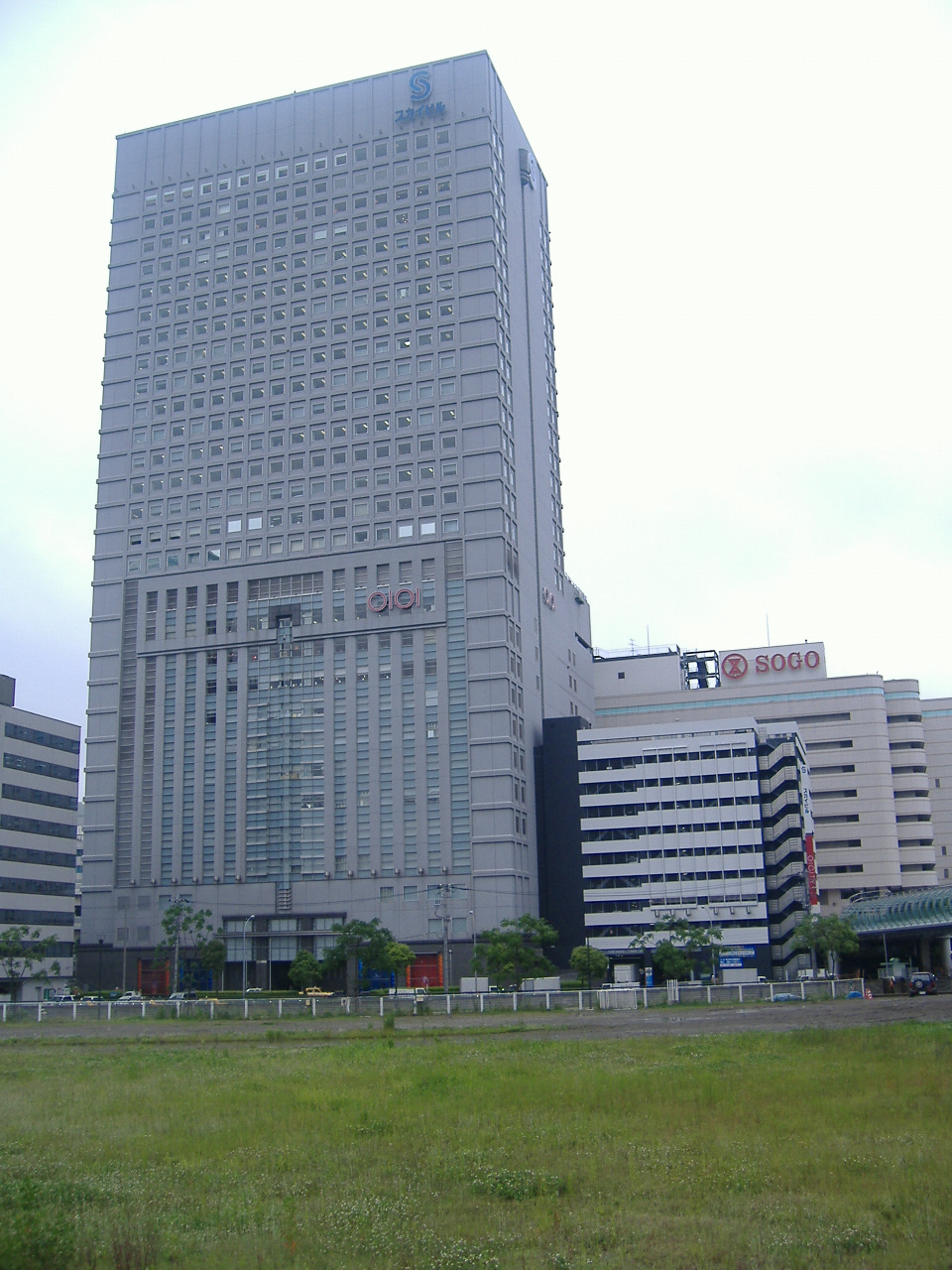 Yokohama Sky Building (Yokohama, Japan)